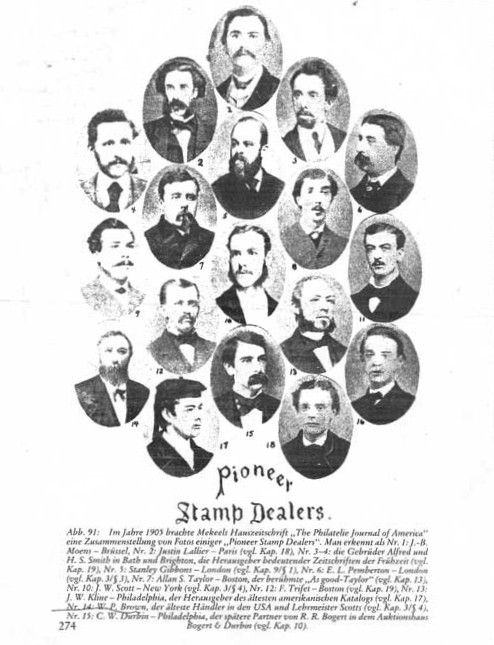 18 pioneer stamp dealers of the 19th century.